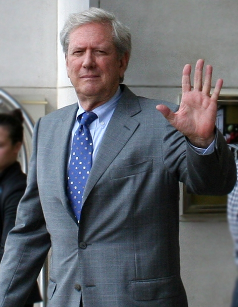 Michael Murphy at the 2006 Toronto International Film Festival